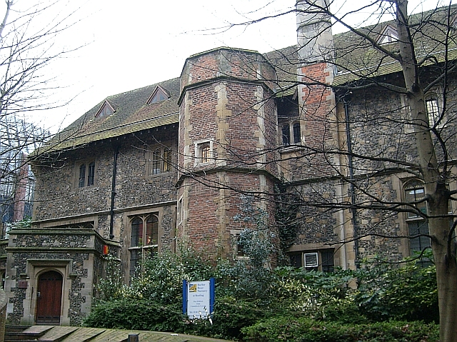 The north side of the Hospitium of St. John. It is one of few remaining buildings from the time of Reading Abbey, when it was used as a dormitory for pilgrims. In 1485 it was extensively altered to become the Royal Grammar School of King Henry VII (later Reading School). Today it is occupied by a children's nursery. For more information see the Wikipedia article Reading Abbey .